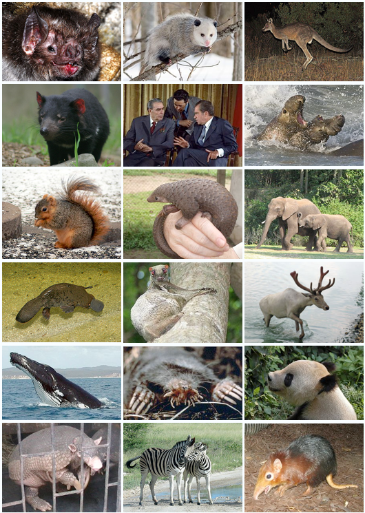 1.1. The common vampire bat, Desmodus rotundus (Mammalia: Chiroptera: Phyllostomidae: Desmodontinae. 1.2. North American Opossum with winter coat.1.3. Eastern Grey Kangaroo on mount Taylor, Canberra, Australia2.1. Sarcophilus harrisii - Tasmanian devil2.2. San hunter, Botswana2.3. Male Northern Elephant Seals fighting for territory and mates, Piedras Blancas, San Simeon, California (USA).3.1. Fox squirrel3.2. Tree pangolin (Manus tricuspis) in central Democratic Republic of the Congo3.3. Elephants at the Kilimanjaro Safari in Disney's Animal Kingdom, in Orlando, Florida.4.1. Platypus4.2. Colugo4.3. Appears to be an albino Elk, located at Wagon Trails Animal Park5.1. Humpback Whale, Platypus Bay, Queensland, Australia from which was linked on Star-nosed mole5.3. Giant Panda6.1. Ocarro or Giant Armadillo from Villavicencio Colombia6.2. Zebras in the Etosha national park, Namibia6.3. Black and Rufus Giant Elephant Shrew. )